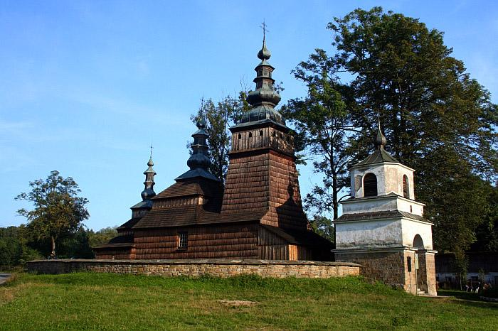 Greek Catholic church from 17th century in Owczary, Gorlice county, Poland.